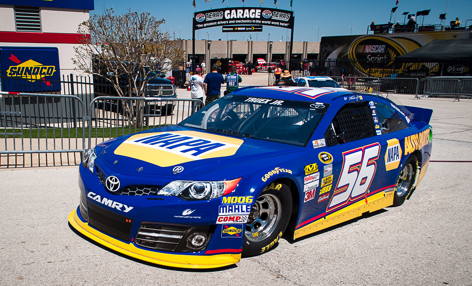 Martin Truex, Jr. drives the No. 56 Michael Waltrip Racing Toyota out of the garage at Texas Motor Speedway during practice for the 2013 NRA 500.